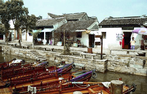 Tongli township江苏吴江同里镇